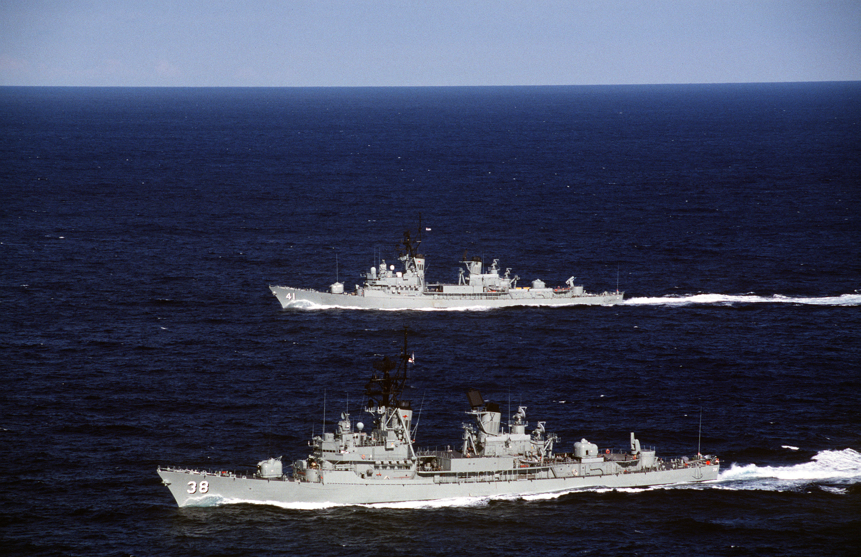 Port side views of the guided missile destroyers HMAS Perth (DDG-38) and Brisbane (DDG-41) underway. The destroyers are steaming north for Kangaroo 95, Australia's largest joint military exercise during Iron Fist '95.